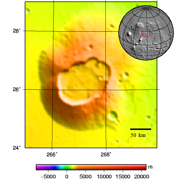 Topography map of shield vulcano Uranius Patera on Mars